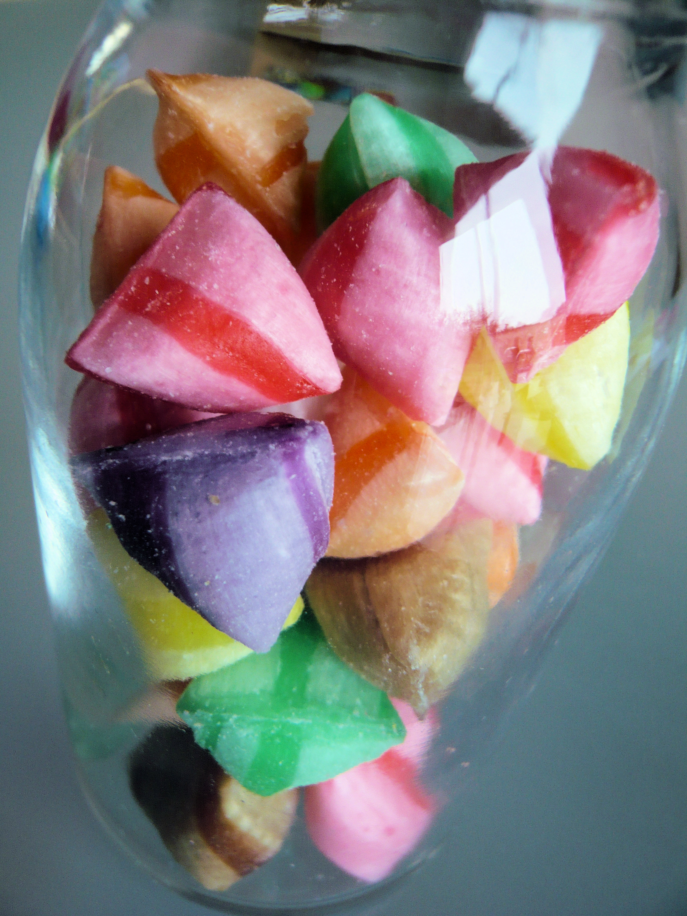 French Candy "Berlingots", from Nantes, a city in western France